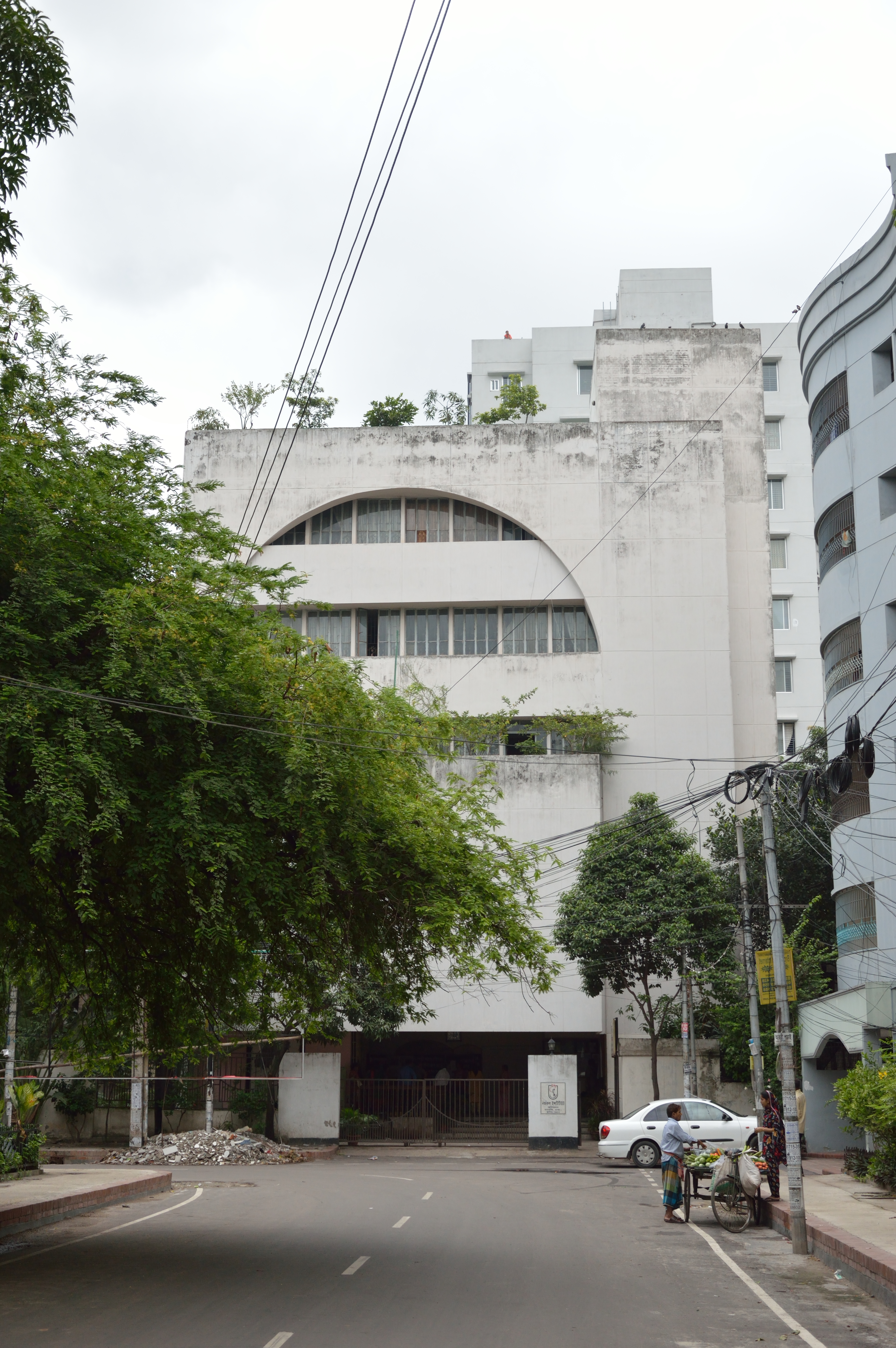 Photographed in Dhaka, Bangladesh.